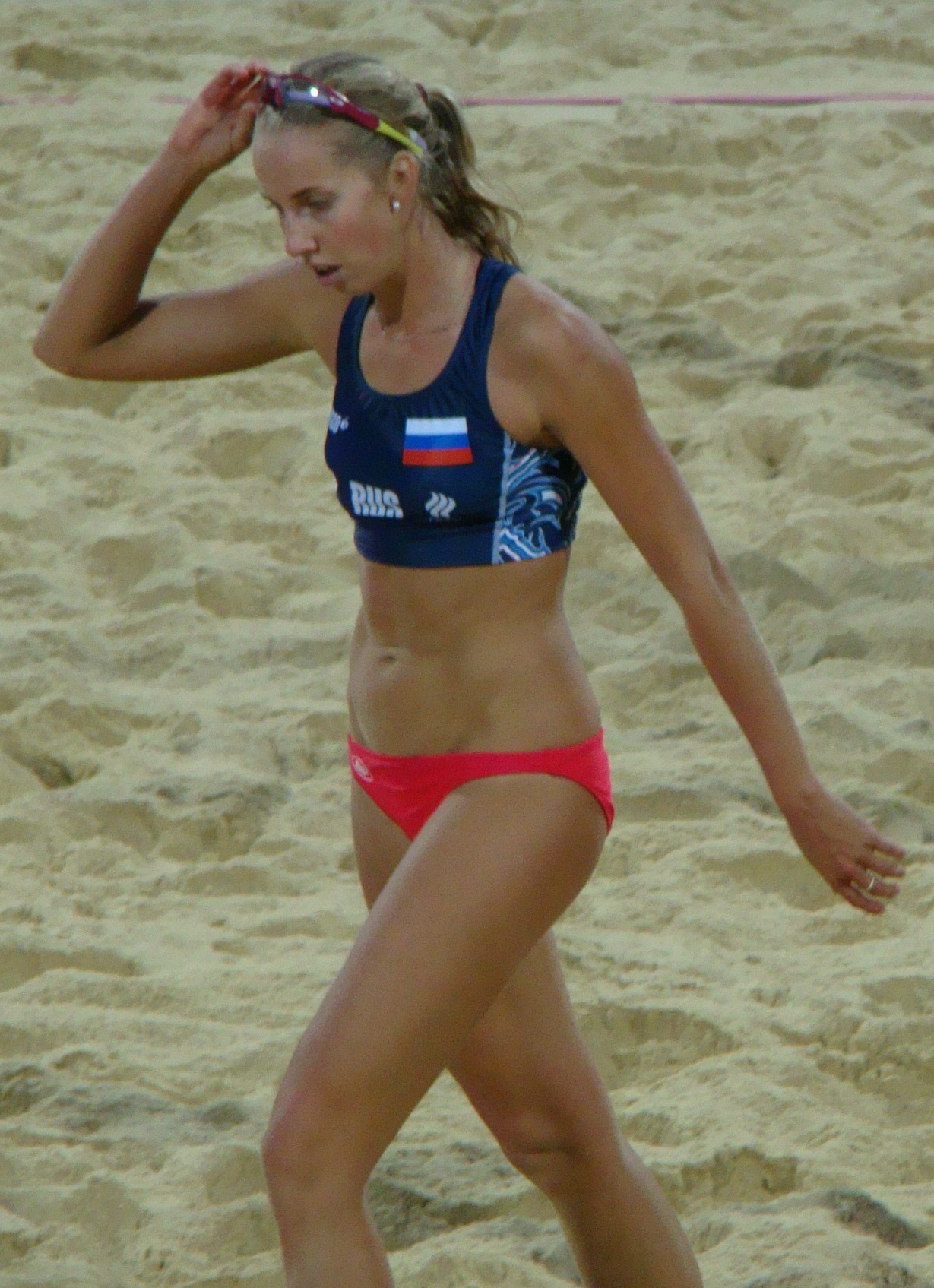 Evgenia Ukolova competing against the Canadian team in the 2012 Summer Olympics.